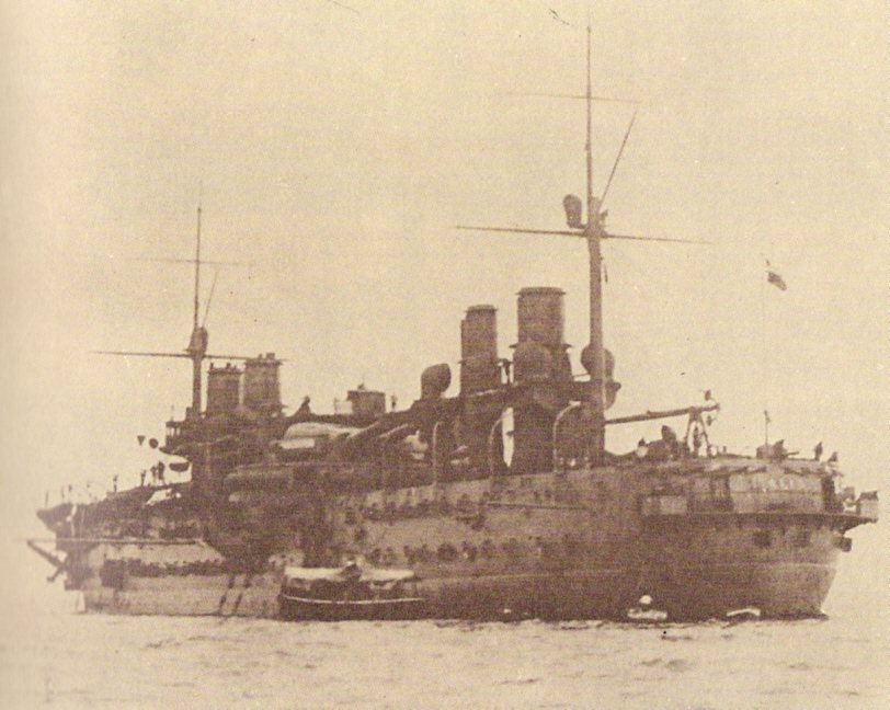 Italian battleship Italia as she appeared after her 1905-1908 refit